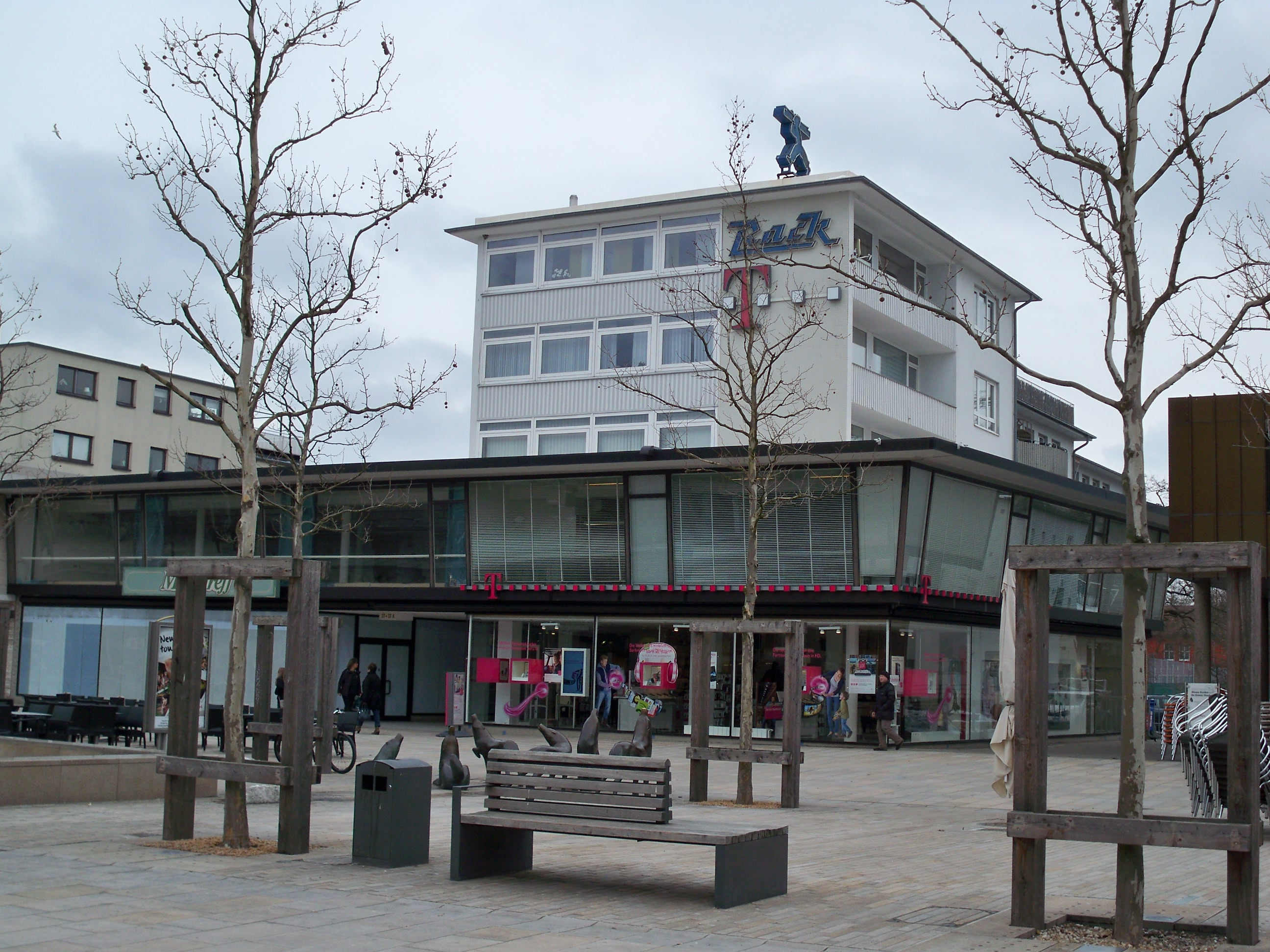 Wolfsburg, Lower Saxony, Porschestraße, Rack building (protected monument)